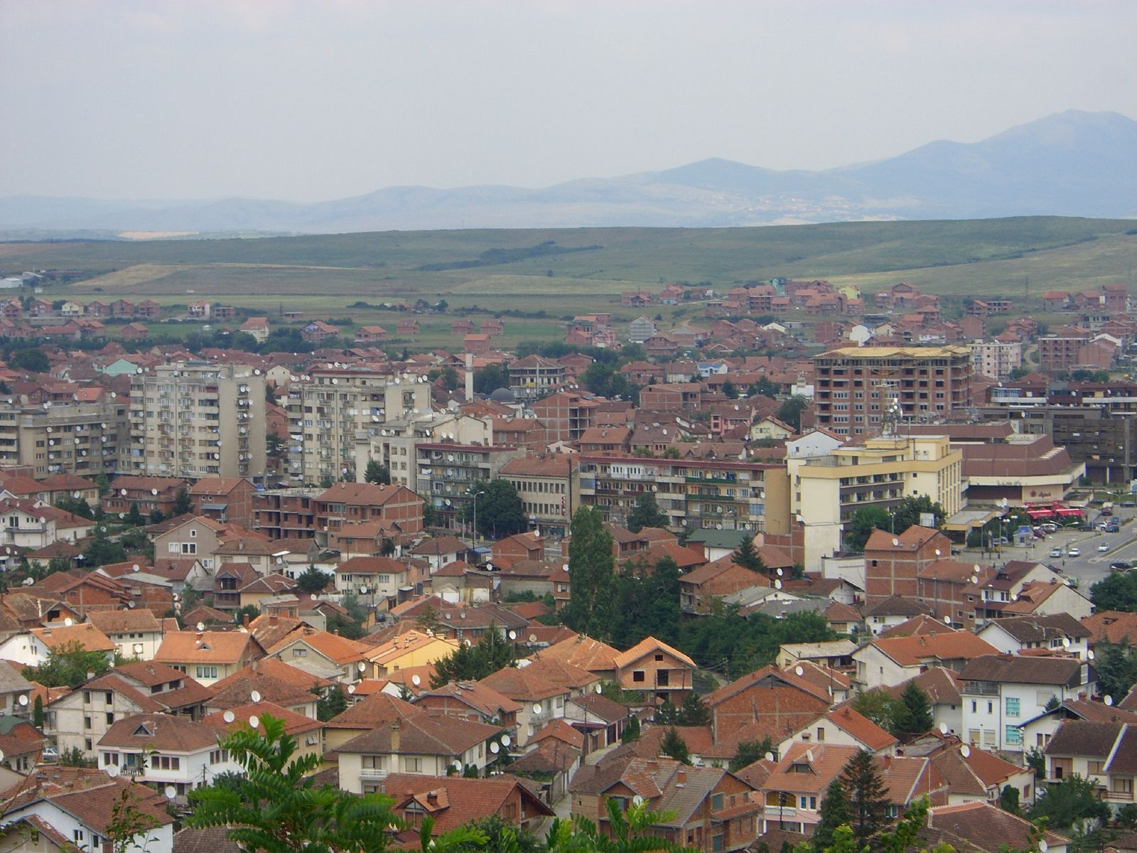 The town of Đakovica, Kosovo